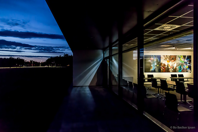 Painting, by night, given to Varde Kommune by artist Hans Tyrrestrup at the opening of Varde Kommunes new City Hall.